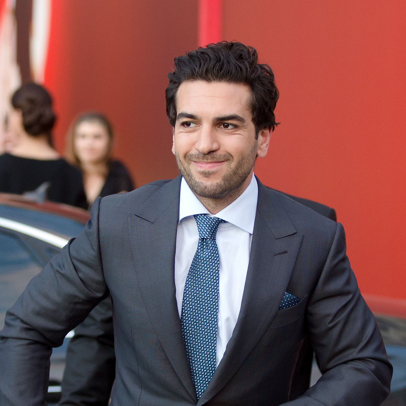 Elyas M'Barek on the red carpet of the Romy TV awards 2016 at Hofburg Palace in Vienna, Austria.